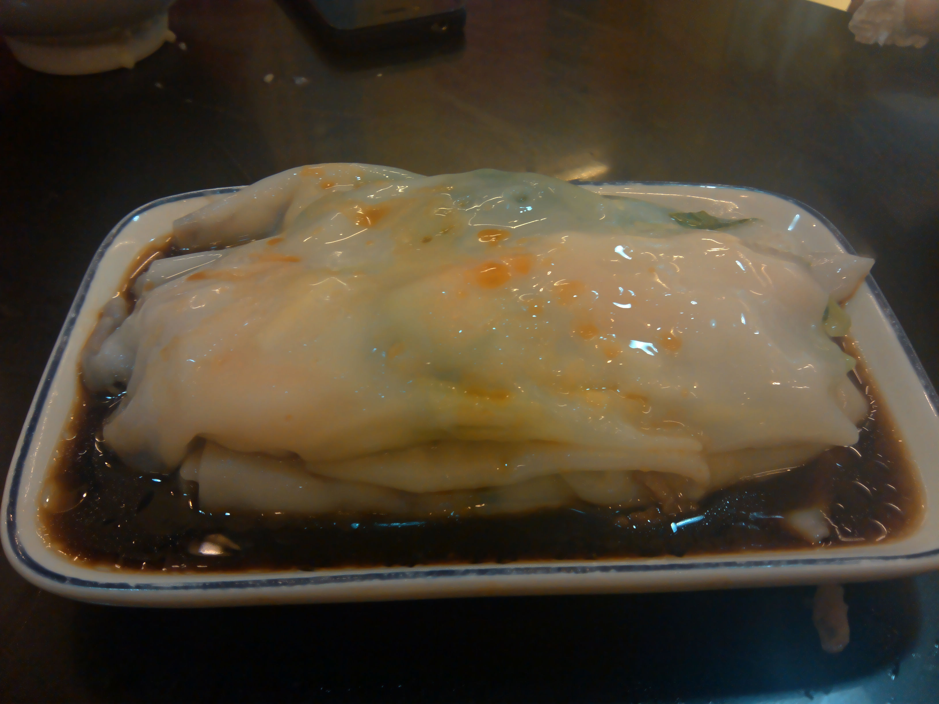 Rice noodle roll